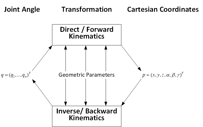 Robotkinematics Direct vs Inverse kinematics